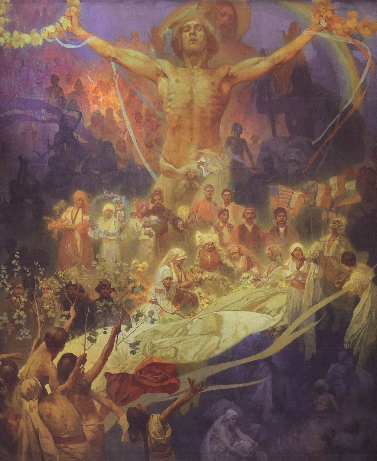 Apotheosis of the Slavs history